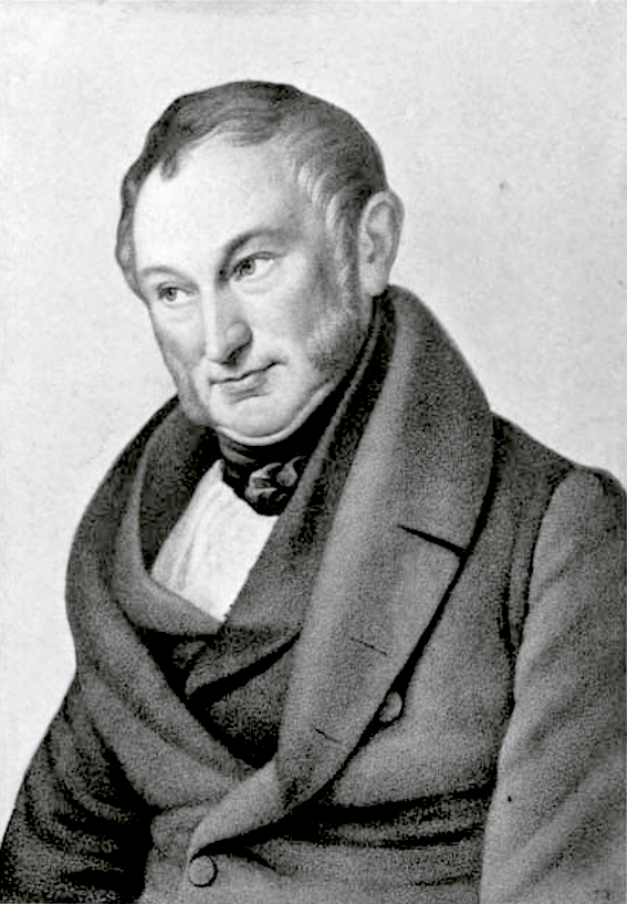 A black-and-white photographic reprodution of a portrait of J. H. von Thünen. Original painting located at the Thünen-Museum-Tellow in Mecklenberg, Germany